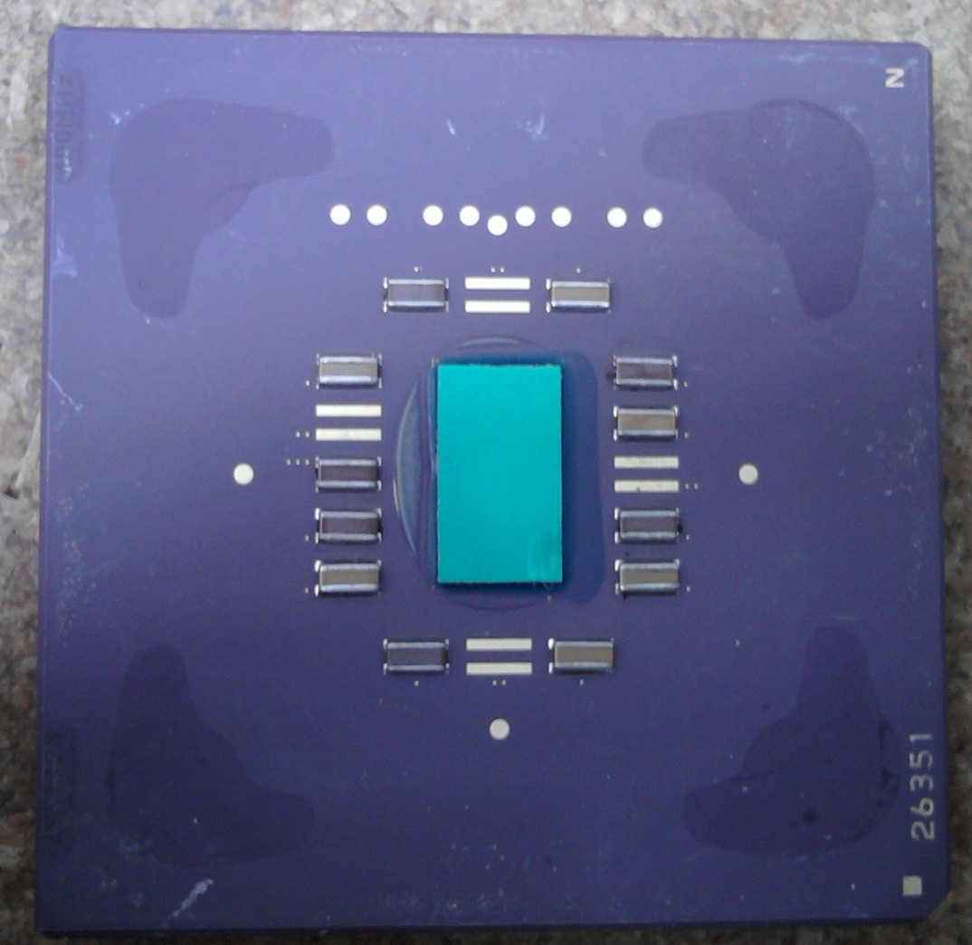 AMD-K6-2/400AFR processor with integrated heatsink removed.